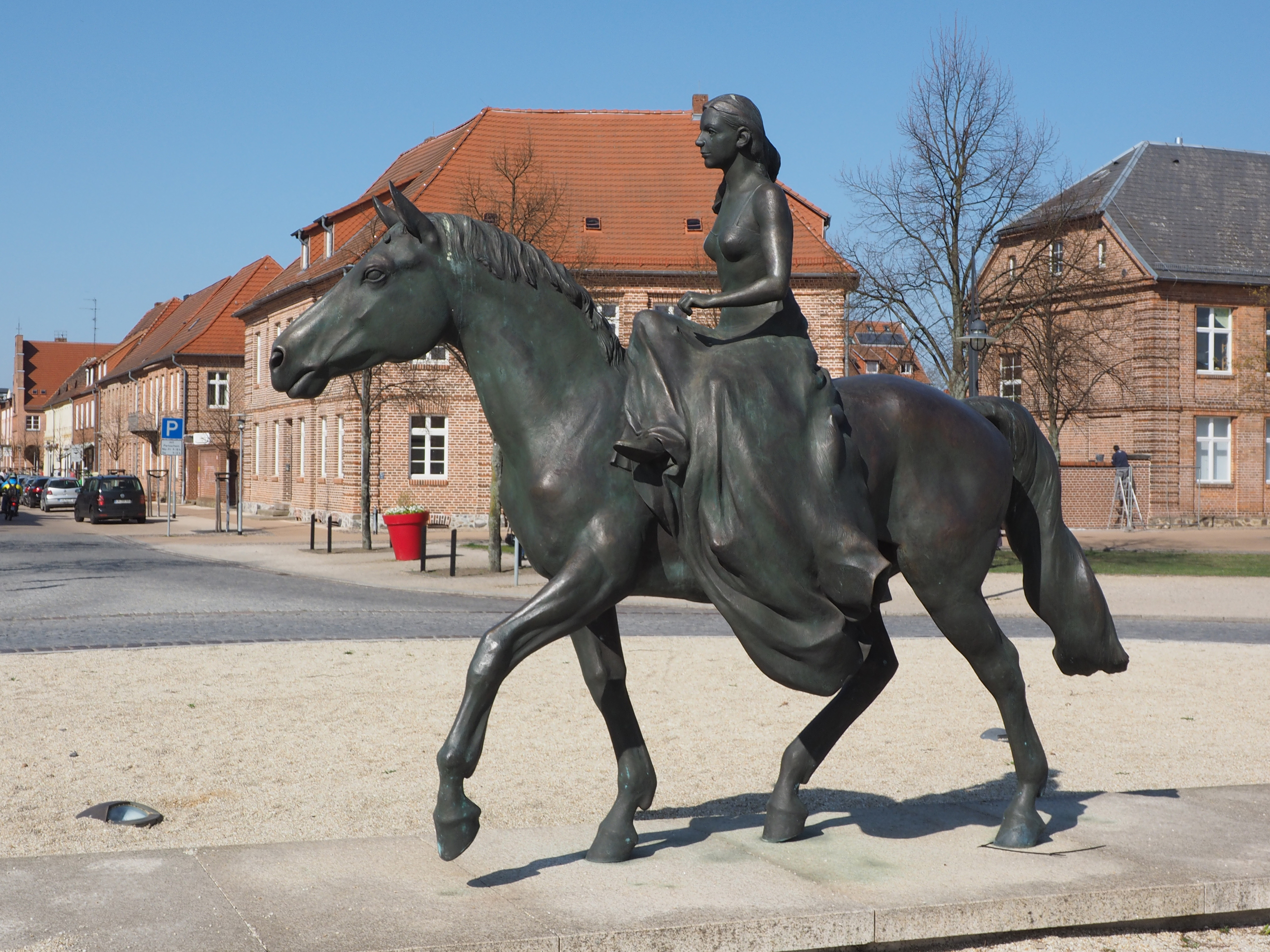 Memorial to Grand-dutchness Alexandrine of Mecklenburg-Schwerin in Ludwigslust, sculpted by Andreas Krämmer & Holger Lassen